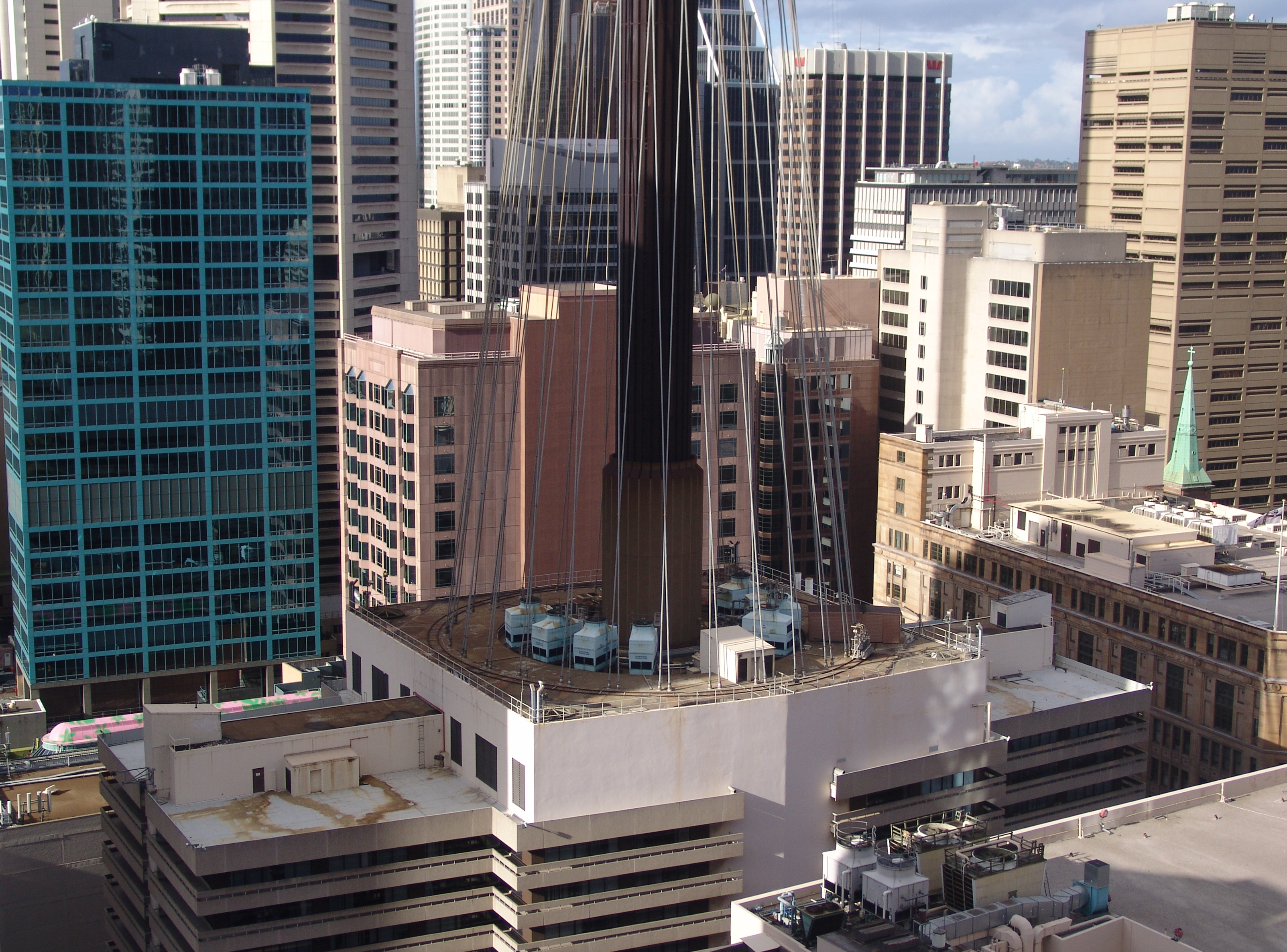 Base of the Sydney Tower (Westfield Centrepoint) viewed from Hilton.